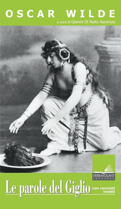 Copertina parole del Giglio. Photo: Soprano Alice Guszalewicz as Salome with Jokanaan's severed head in Richard Strauss's opera. Cologne 1906 or Leipzig 1907. Collection Guillot de Saix, Paris. Richard Ellmann's 1987 biography of Oscar Wilde had published the photo with the caption: "Oscar Wilde in the costume of Salomé." Mervin Holland and Dr. Horst Schroeder of Braunschweig however could prove that the photo showed Alice Guszalewicz who had sung Salome in Cologne in 1906 and in Leipzig 1907.